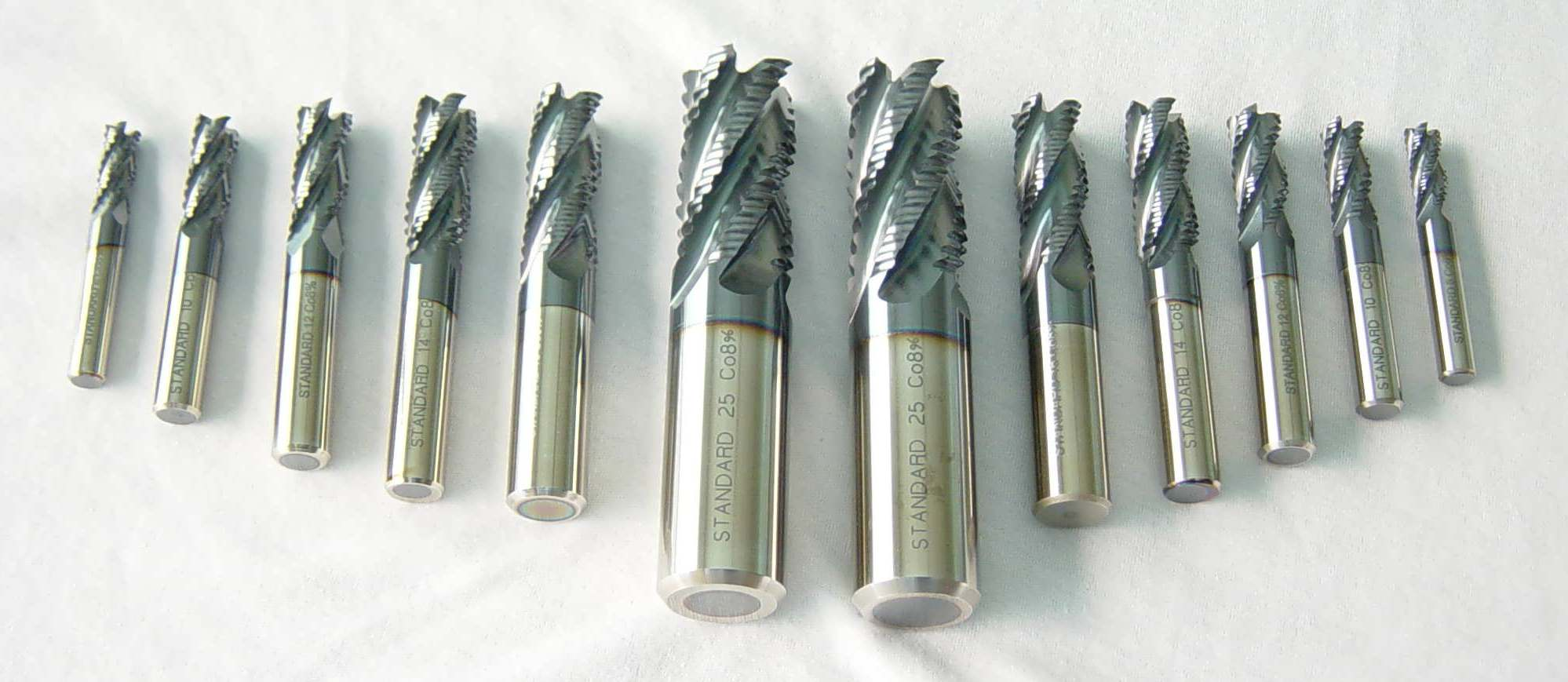 Aluminium Titanium Nitride coated Endmill, recoated tools